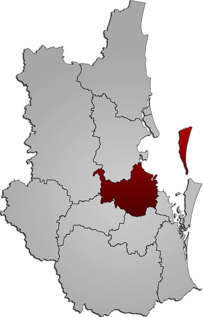 Brisbane City Council from 15 March, 2008